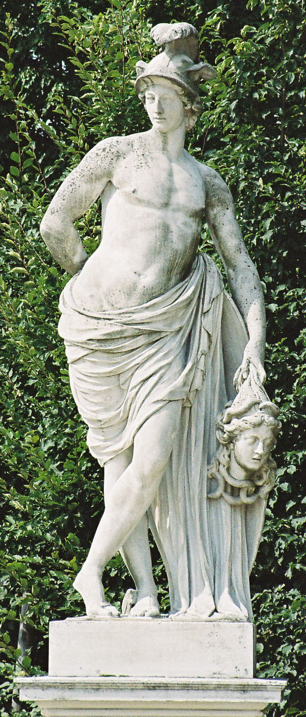 Vienna, Schönbrunn gardens, statue Perseus